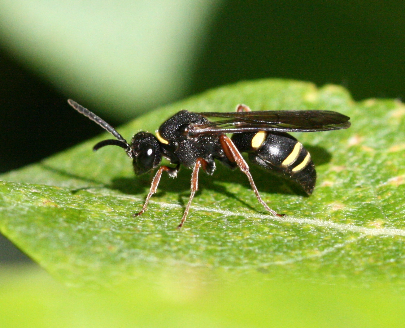 A digger wasp